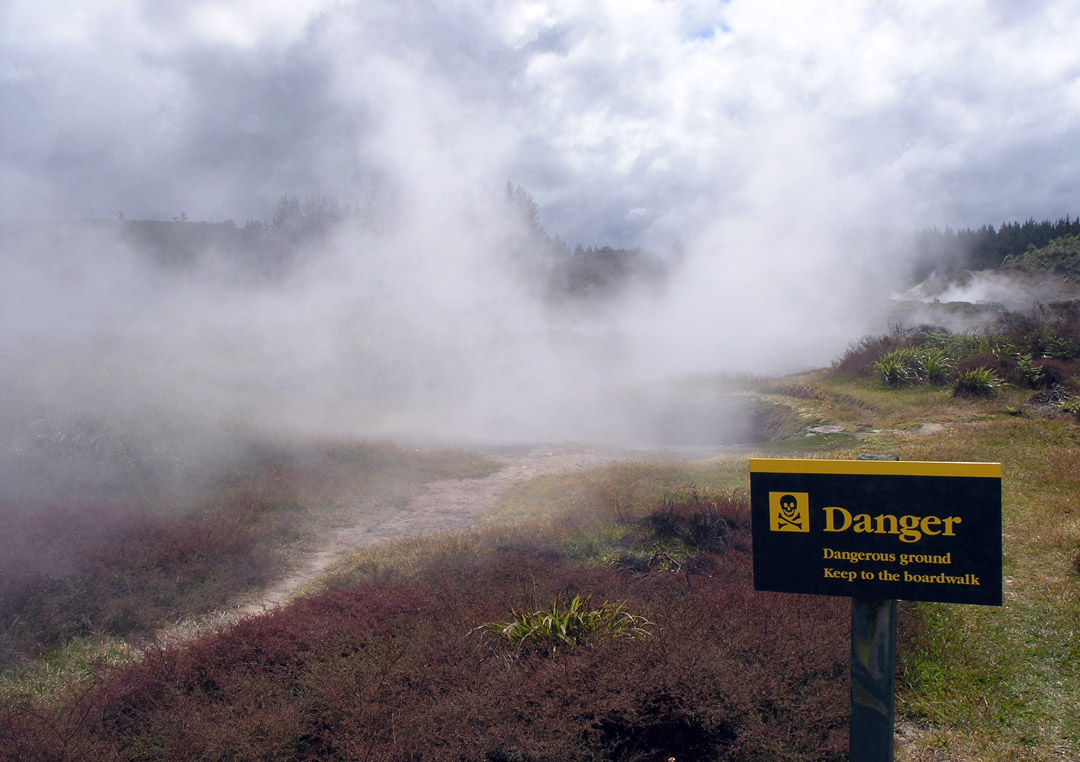 Orakei Korako near Taupo, New Zealand.